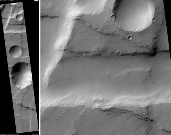 Claritas Rupes, as seen by hirise. Location is 16 South and 250.9 East. Scale bar is 1000 meters long. Image was taken by the Mars Reconnaissance Orbiter's HiRISE. The HiRISE camera was built by Ball Aerospace and Technology Corporation and is operated by the University of Arizona. Image courtesy NASA/JPL/University of Arizona.